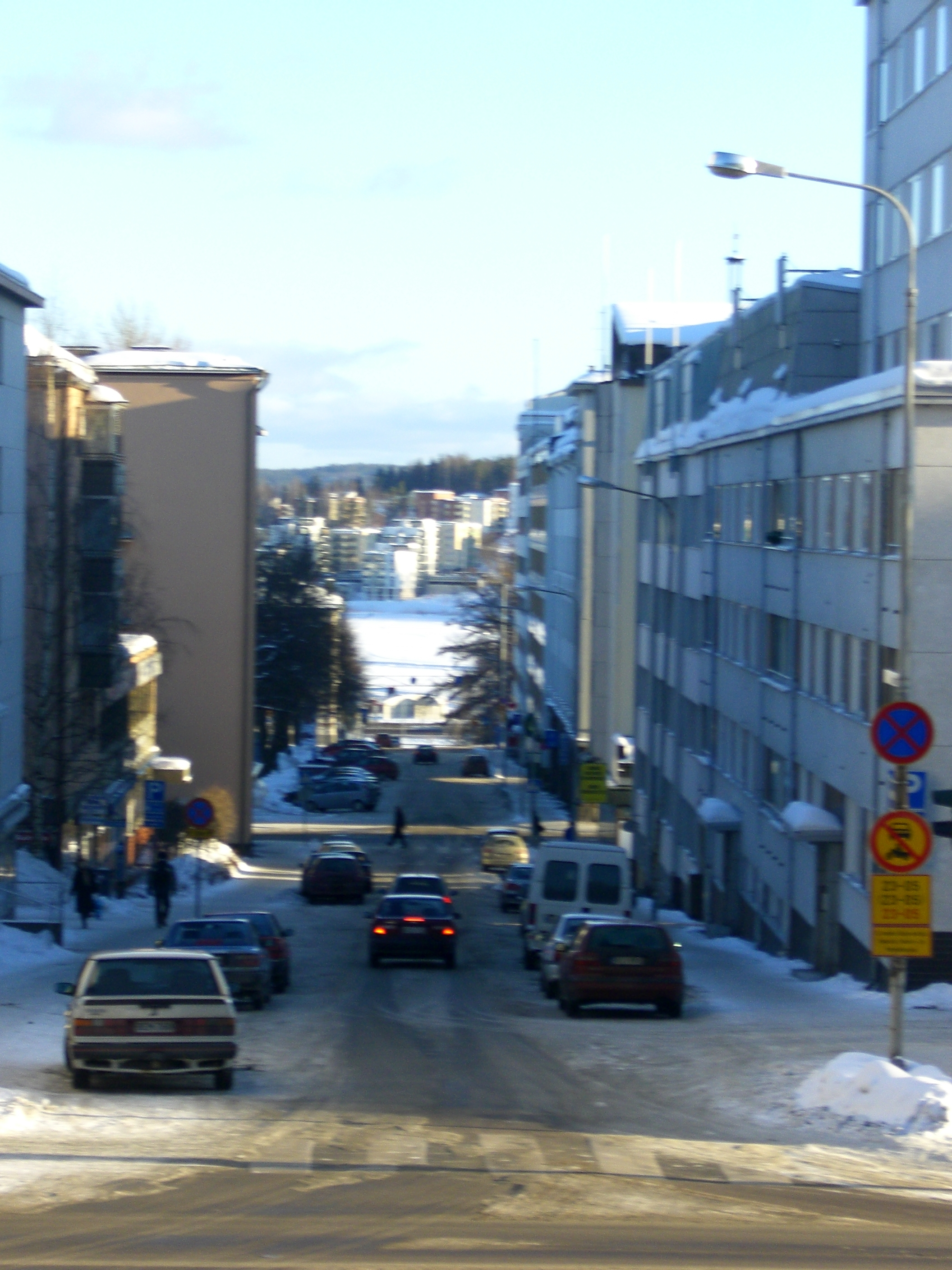 The Gummeruksenkatu street in Jyväskylä, Finland seen from the foot of the Harju ridge; in the background, a part of the Jyväsjärvi lake can be seen as well as a part of the new Ainolanranta residential area on the opposite bank. Photo taken by the uploader in the afternoon of 2006-02-25.